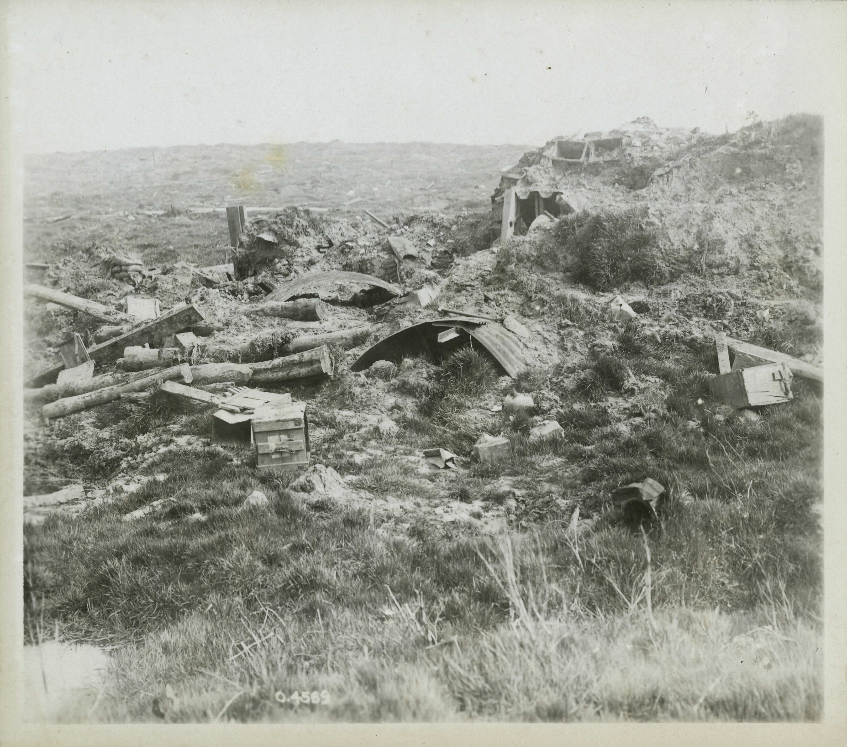 Mount Sorrel with Armagh House in the foreground. Post-battle image of the June 1916 Mount Sorrel battlefield. The debris is all that remains of a dugout and shelter destroyed by artillery fire. Prior to the war, most of the terrain here was heavily wooded.